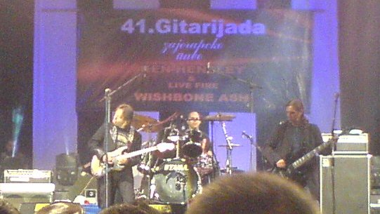 Sead "Zele" Lipovača performing with Divlje Jagode in 2007